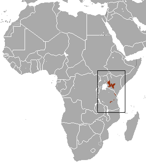 Elgon Shrew (Crocidura elgonius) range